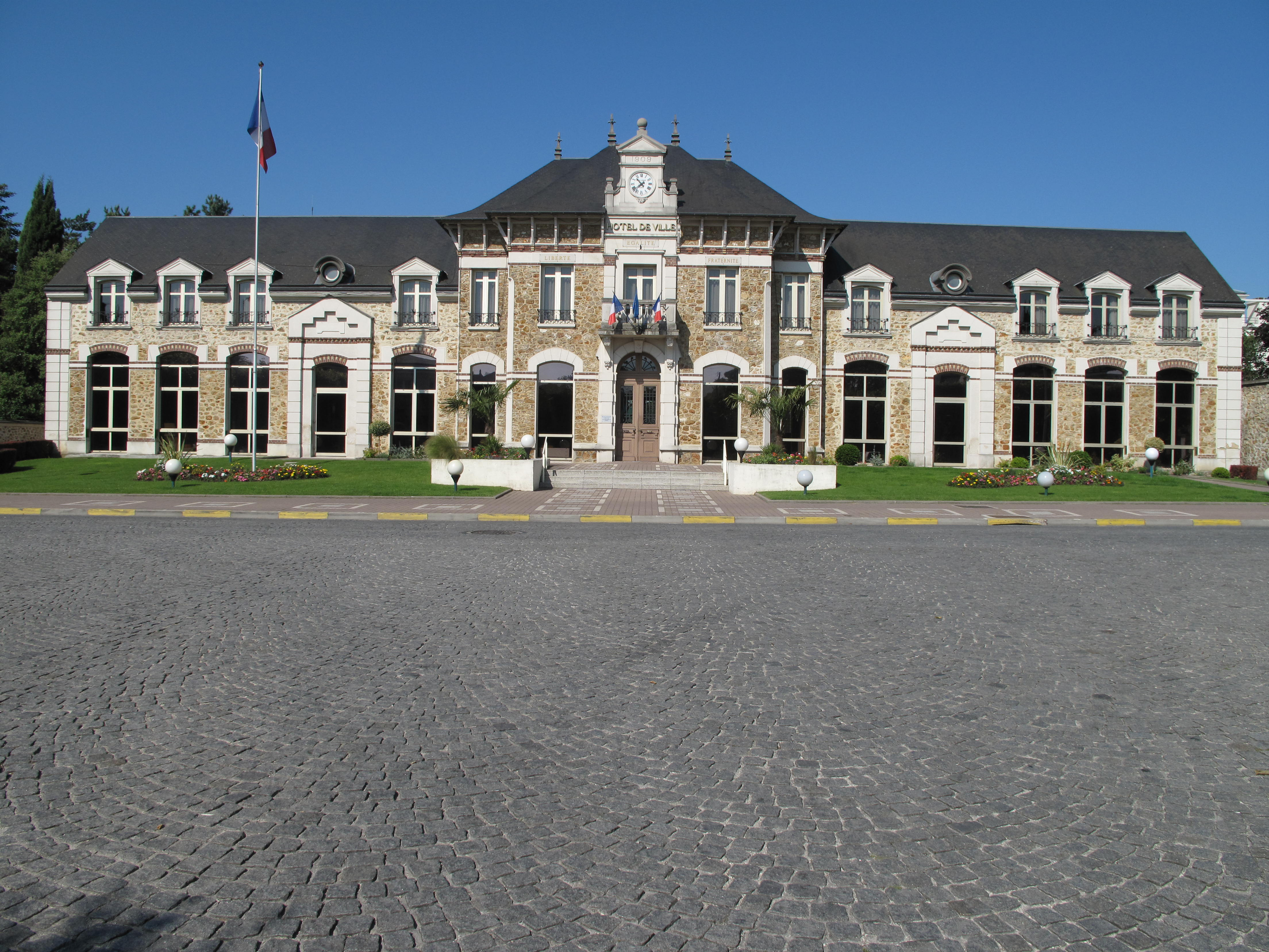 Vaires-sur-Marne town hall (1909)